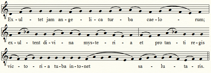 Paschal hymn 'Exultet' as in Ms. Barb. 545, f.226 (12th c.)